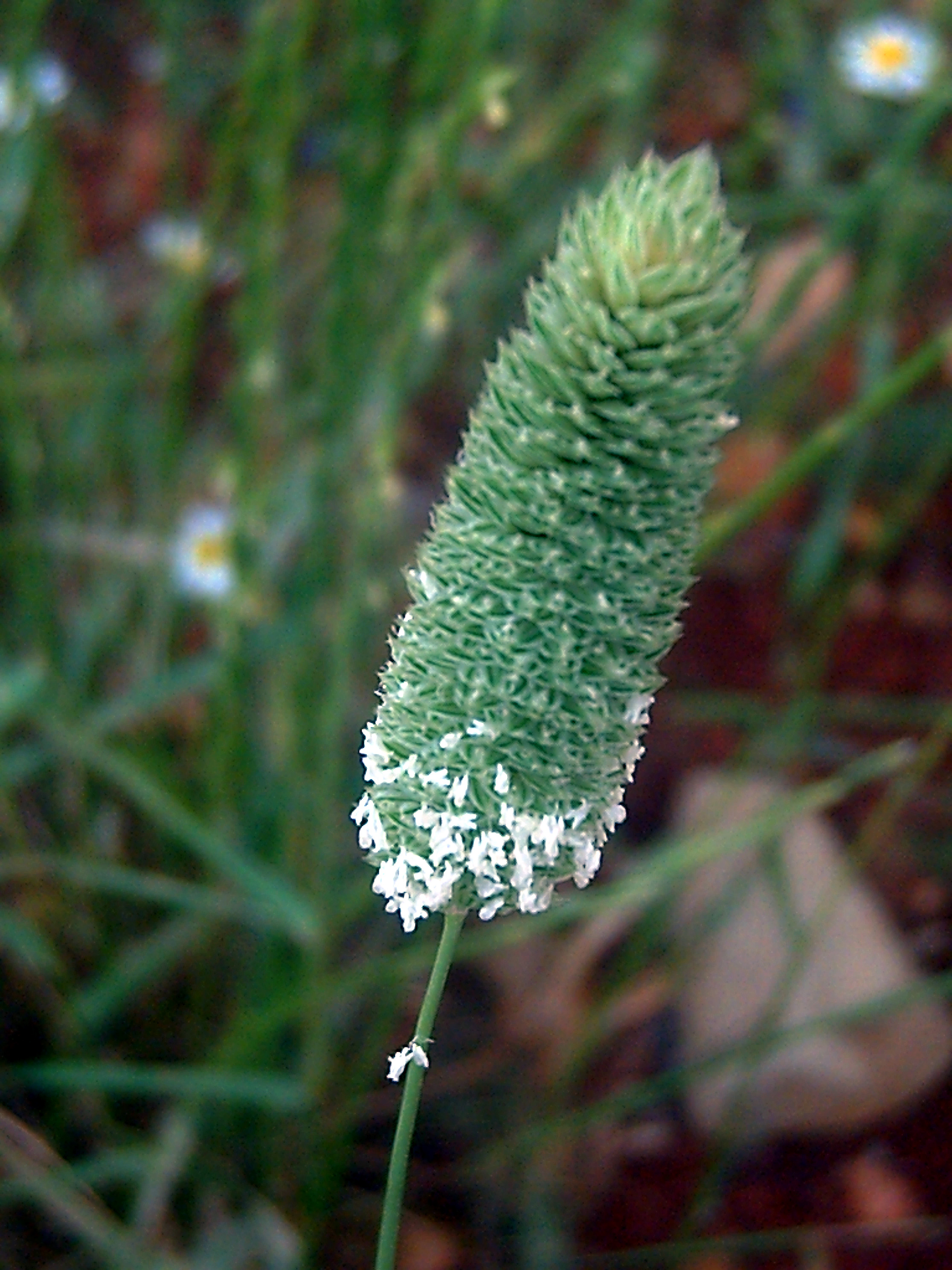 Phalaris canariensis Inflorescence Close up, Campo de Calatrava, Spain